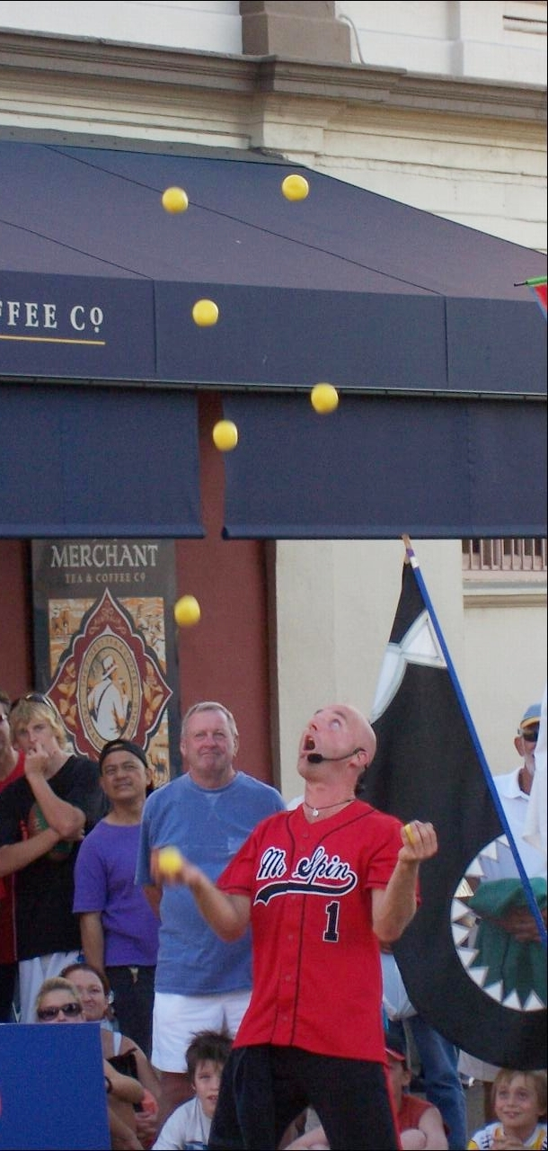 Juggling with 8 balls (Mr. Spin)